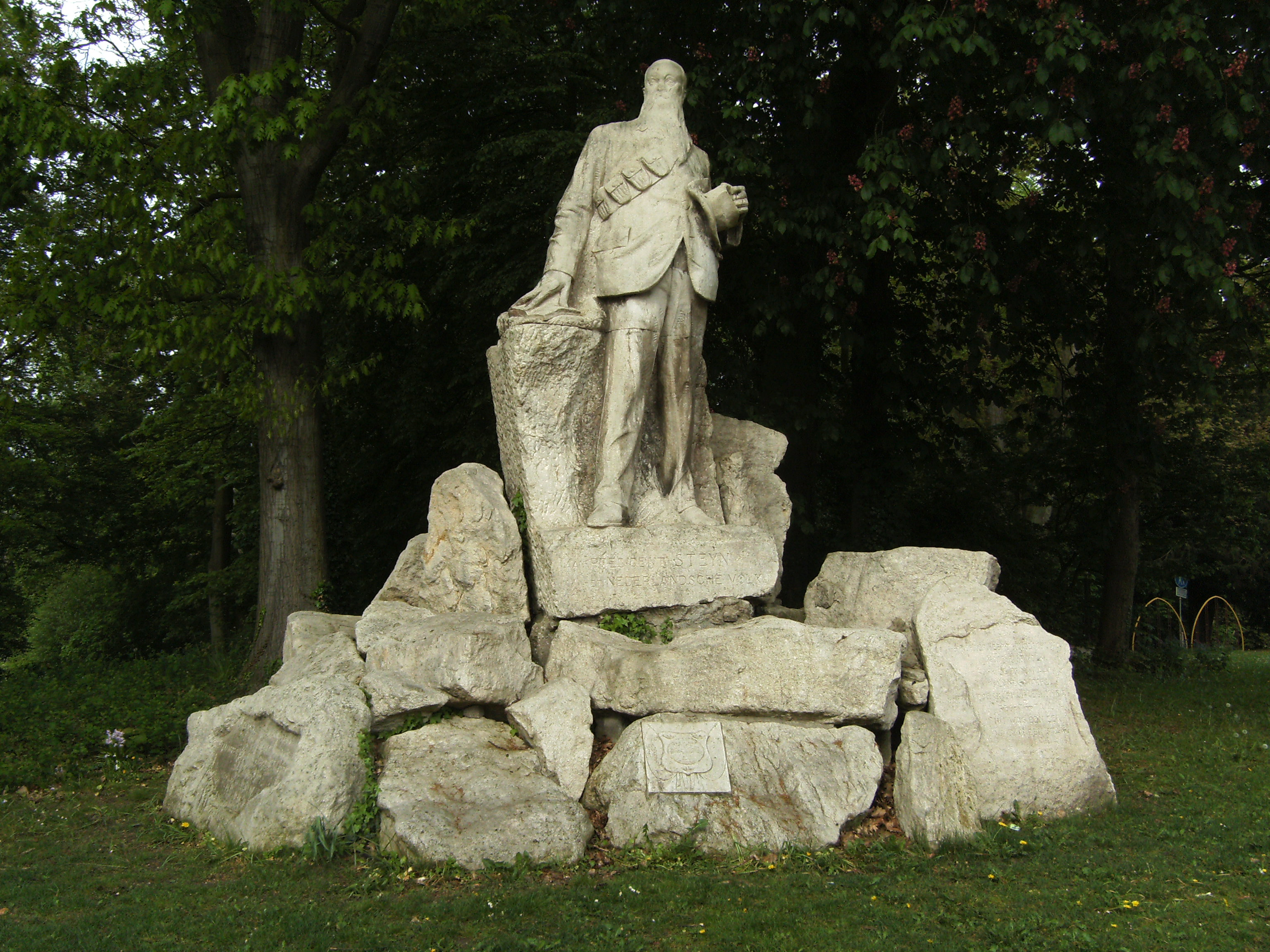 Statue of Martinus Theunis Steyn, former President of the Orange Free State, who studied in Deventer in The Netherlands.